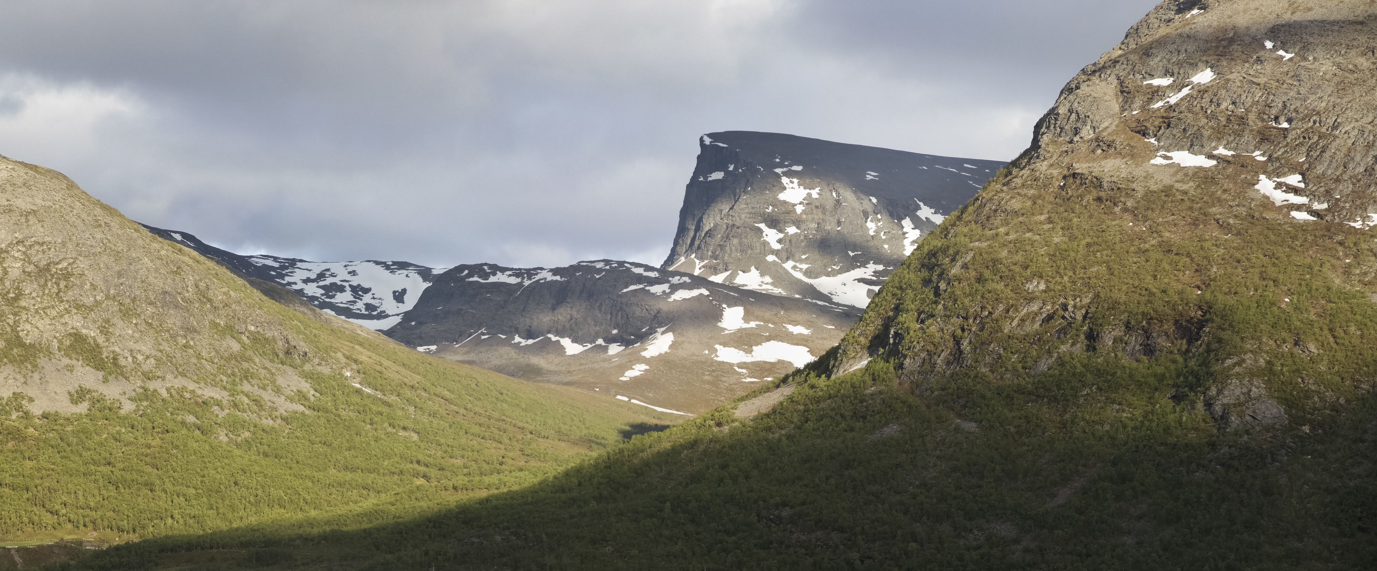 Áhkárnjunni mountain and Kjerringdalen valley (Áhkárvággi) in Finnmark, Norway in summer evening light in 2012 June. The photograph has been taken from the northern side of Langfjorden (Lákkovuotna).